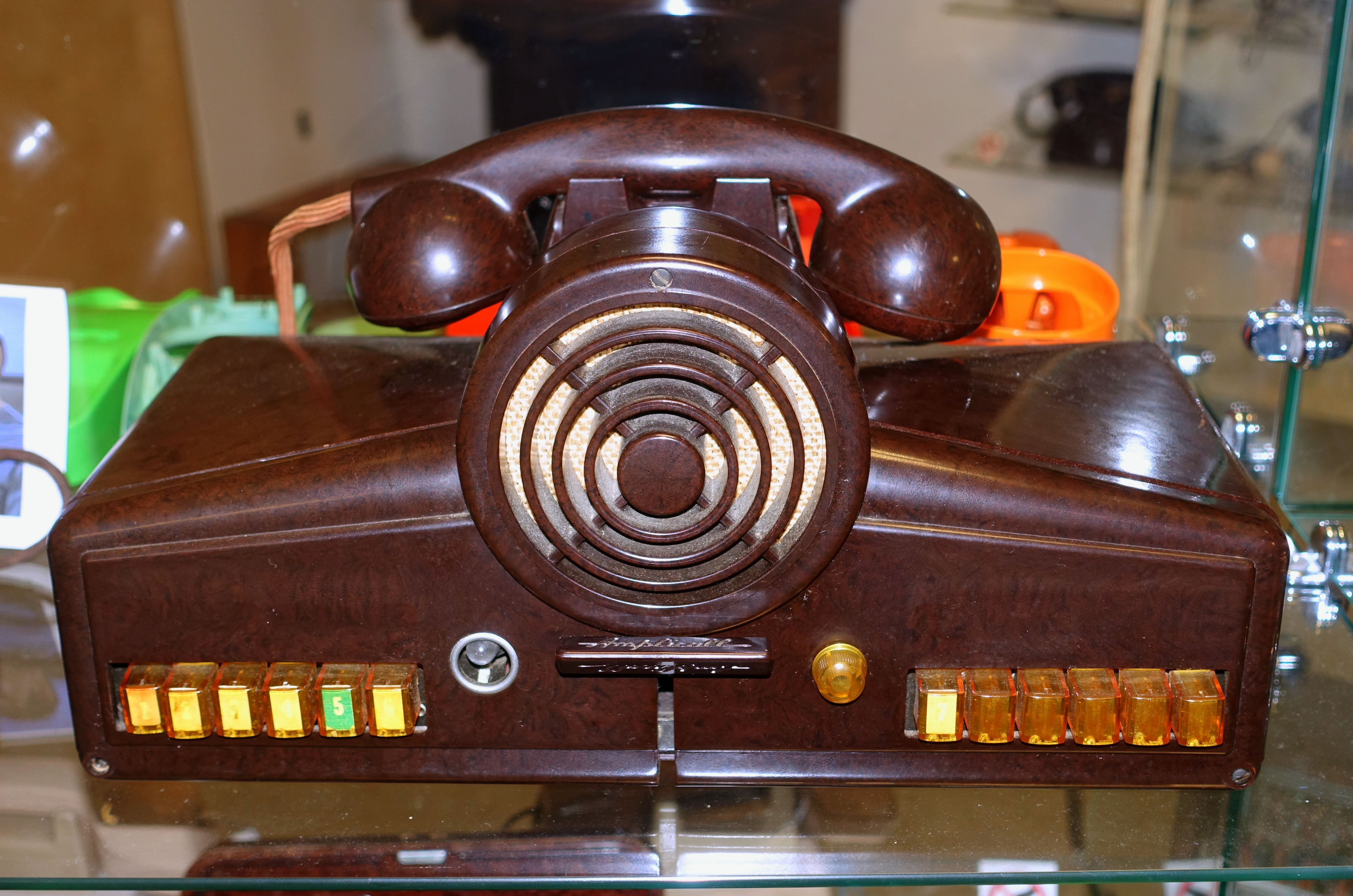 Exhibit in the Telephone Museum - Waltham, Massachusetts, USA. As a utilitarian object, this exhibit is NOT subject to copyright laws. Instead it is subject to Industrial Design Rights; see Industrial Design Right for more information. If this object was ever covered by a design patent, that patent has expired, and thus this image is in the public domain.